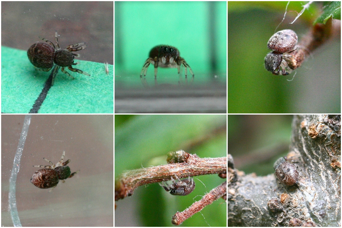 Ballus chalybeius (Salticidae). Beaten from low oak branches at edge of heath. Bricket Wood Common, Hertfordshire, England, 28th July 2010. More Info... Species Summary from Spider Recording Scheme Map from NBN Gateway Pavouci CZ Jorgen Lissner - subadult male, female